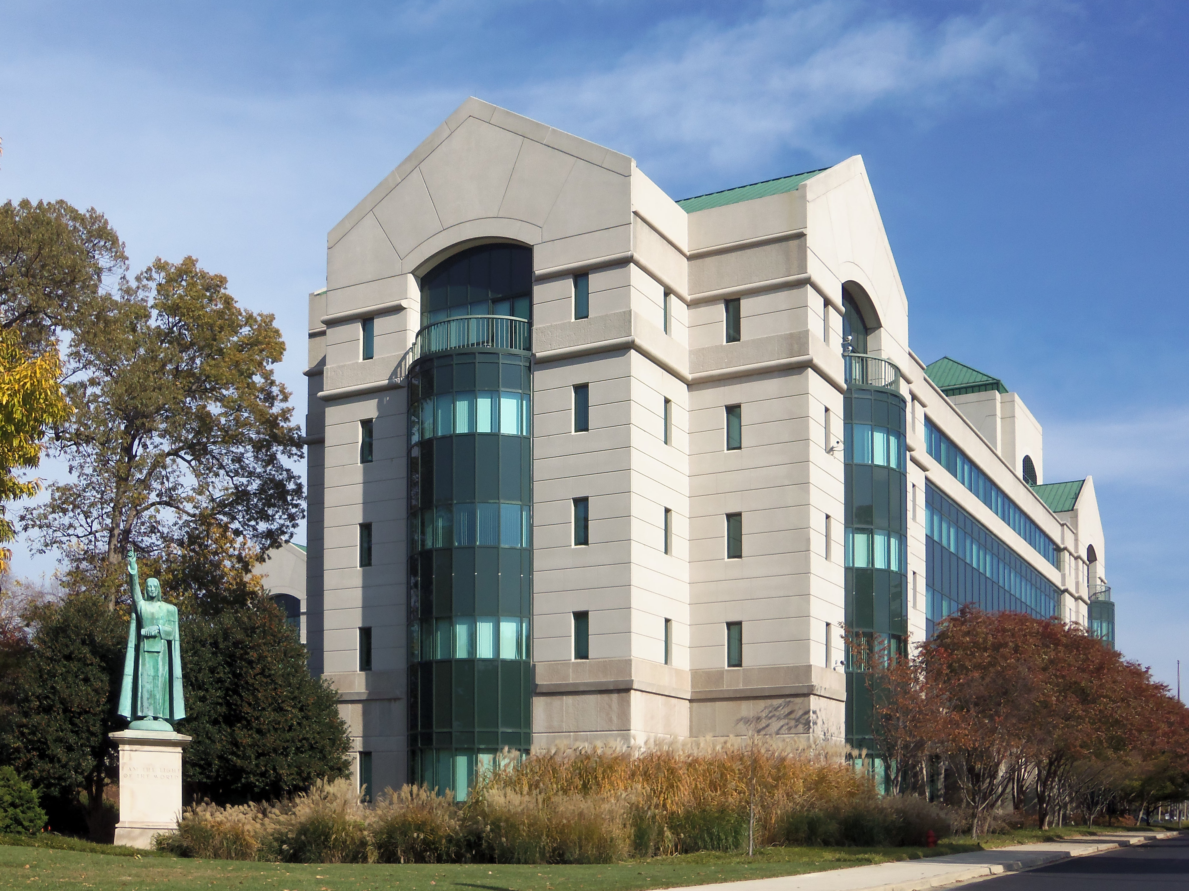 Offices of the United States Conference of Catholic Bishops on Fourth Street NE in Washington, DC.